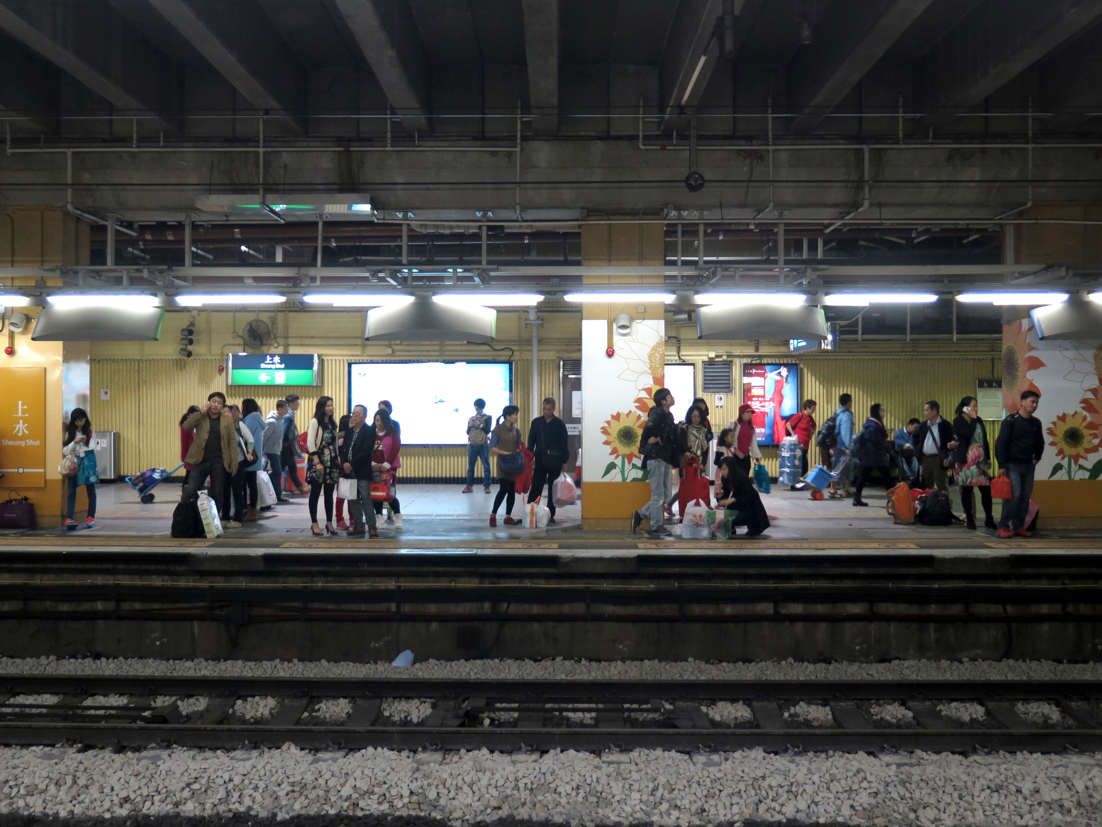 Sheung Shui Station Platform